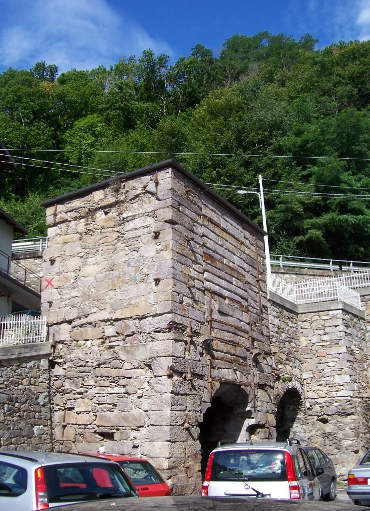 Furnace for iron. Malonno, Val Camonica